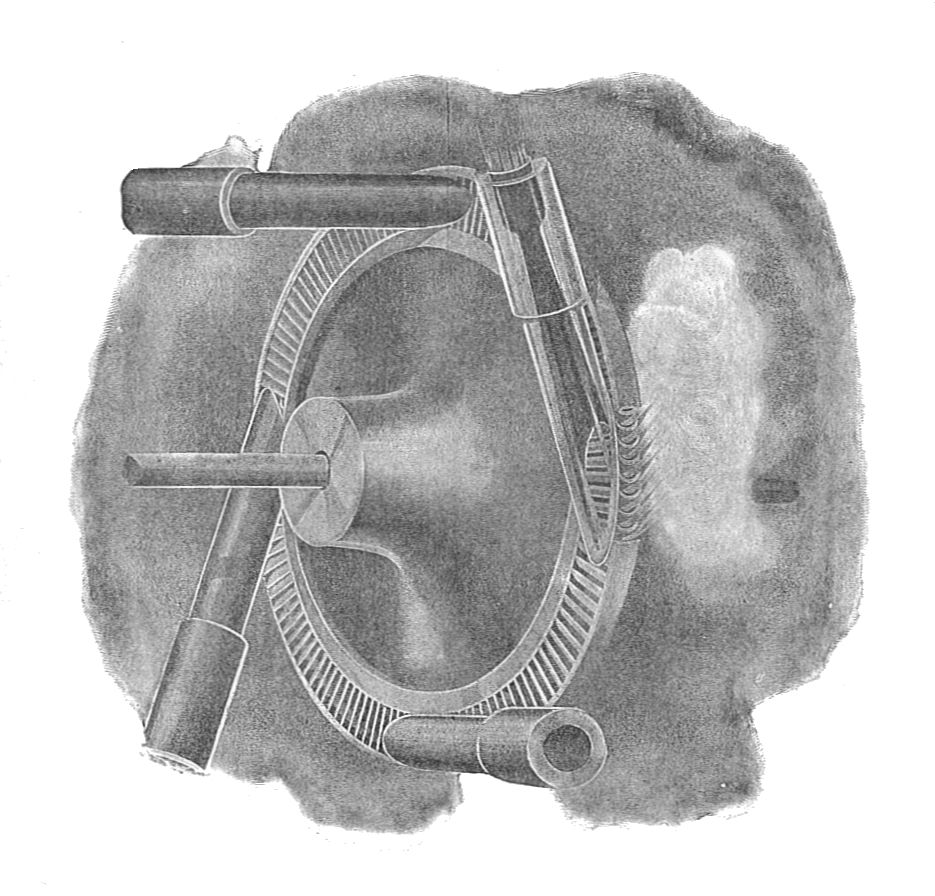 De Laval turbine wheel and nozzles (Rankin Kennedy, Electrical Installations, Vol III, 1903).jpgFig. 29